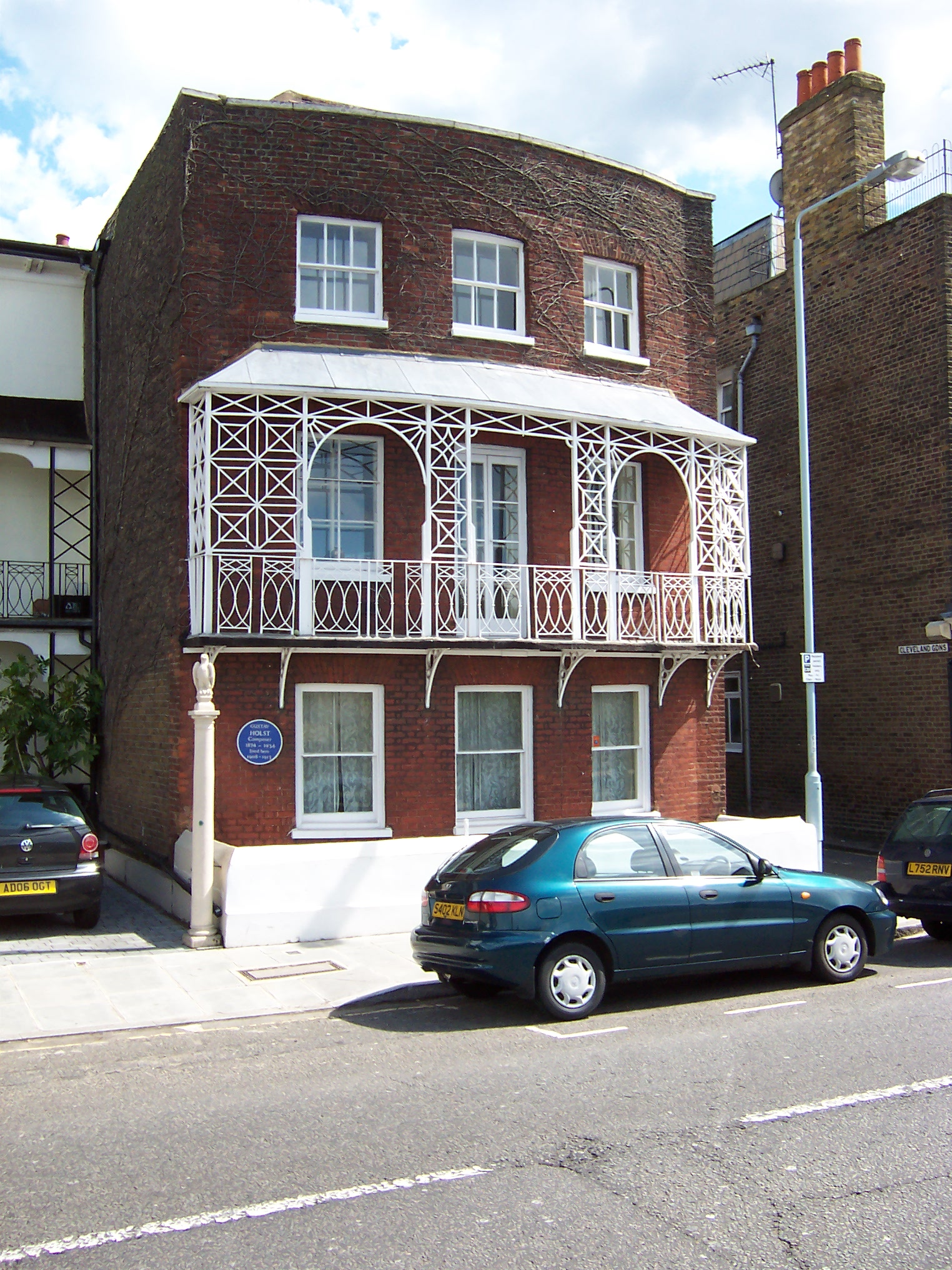 A house near Barnes Bridge where Gustav Holst lived for a while.